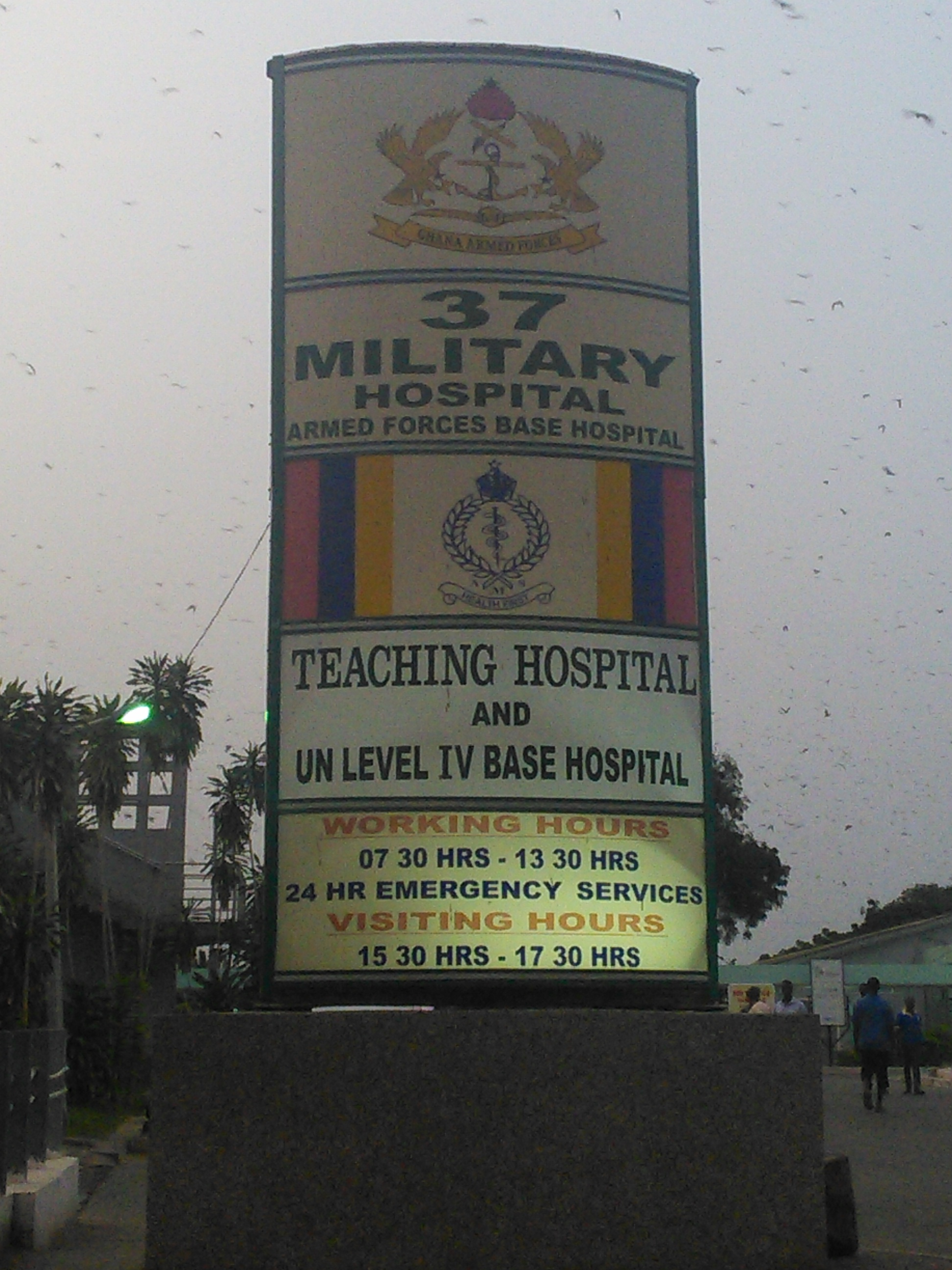 Sign post located in the 37 military hospital premises